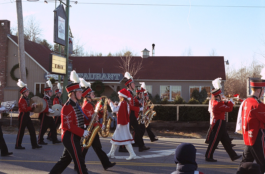 Members of the Wells High School Marching Band, performing at the 1999 Wells Christmas Parade in Wells, Maine. The band is marching northward on Post Road (US-1).